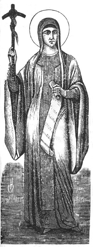 Engraving dating from the end of the 19th-century depicting Saint Nino carrying her cross made from vine branches.